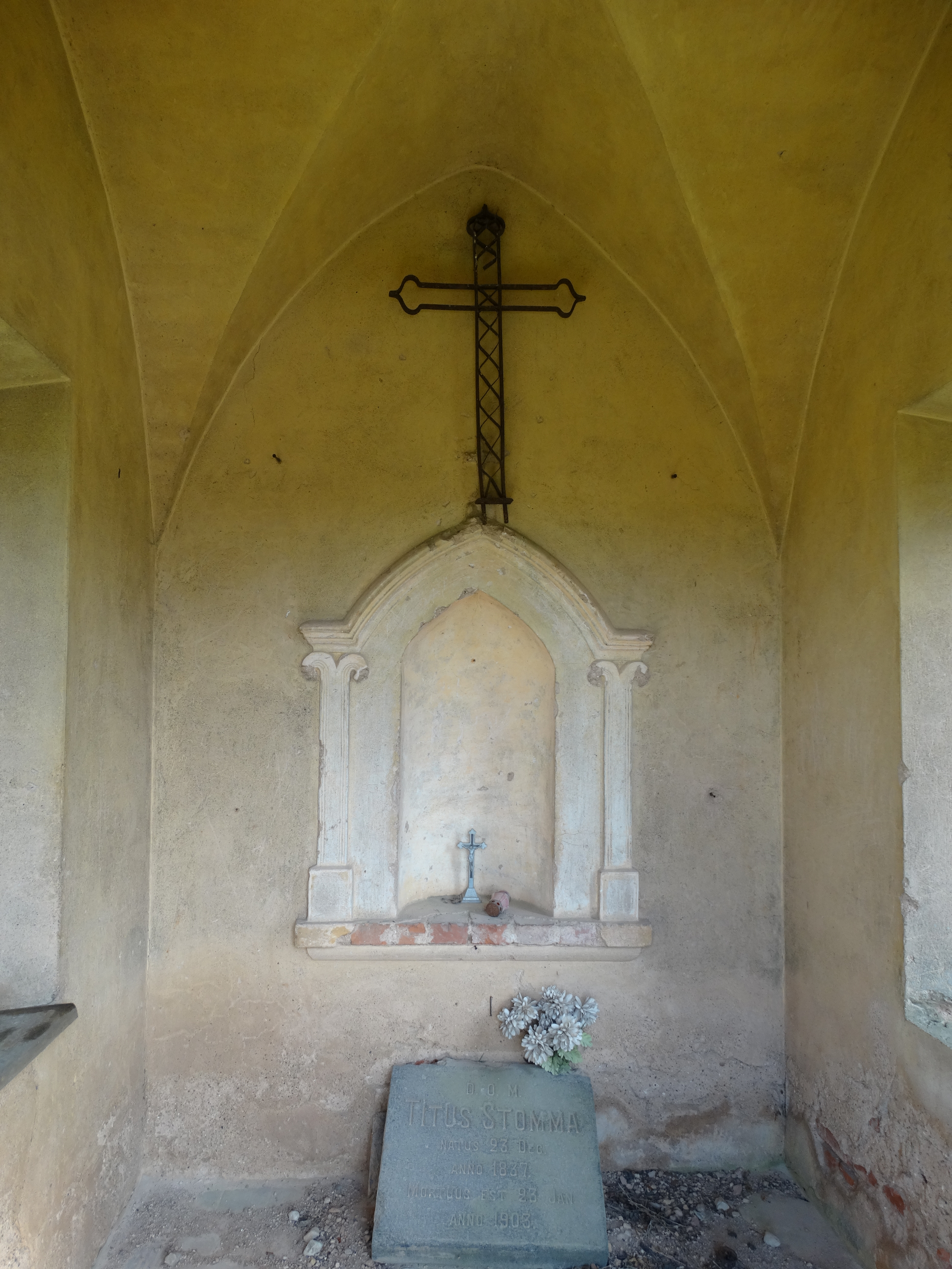 Aukupėnai cemetery chapel, Kėdainiai district, Lithuania